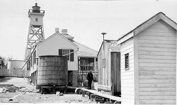 Photo of Light House on Grand Terre Island adjacent to Fort Livingston, Louisiana. This is the second lighthouse in this location, completed in 1903.